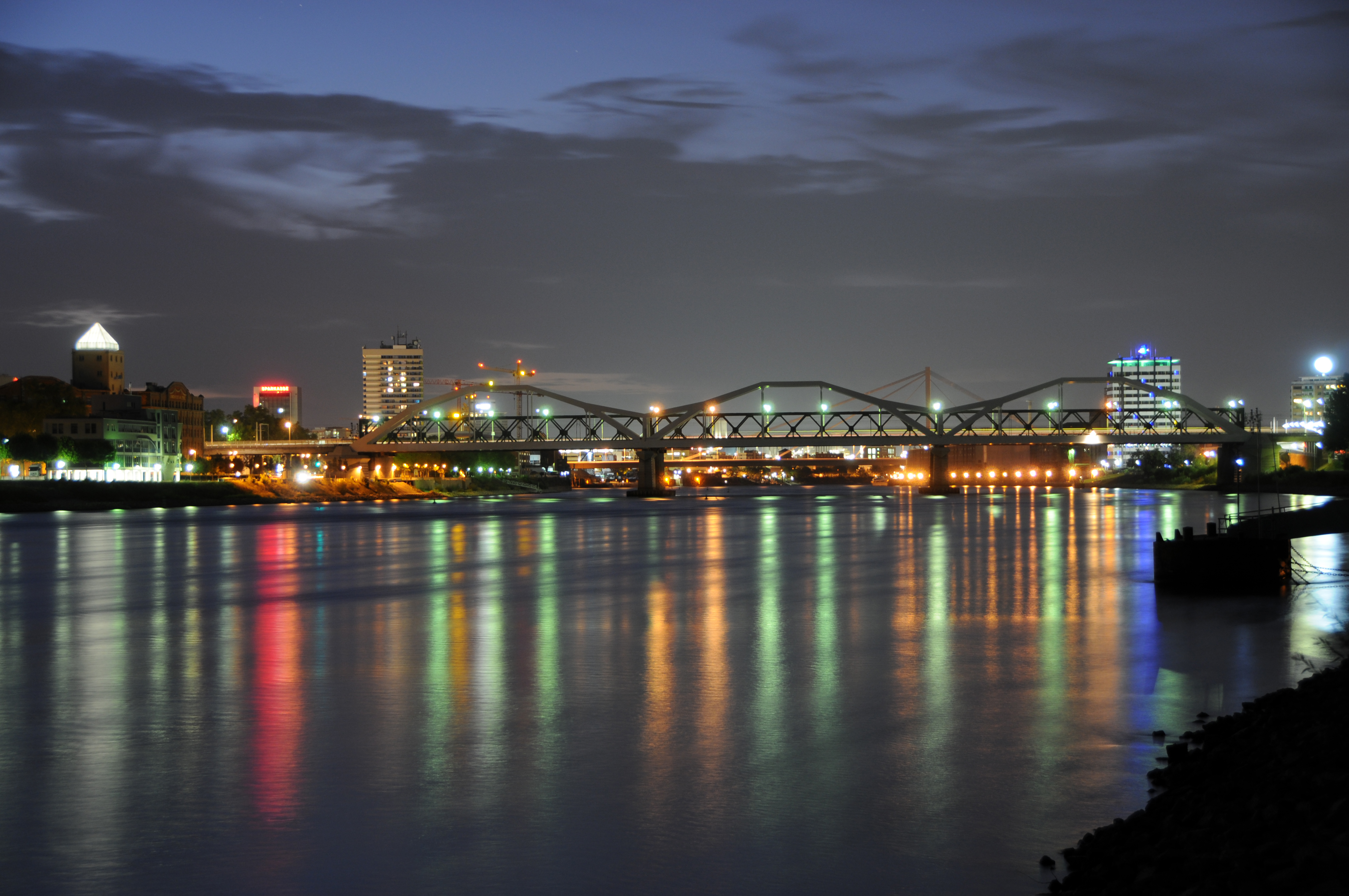 Mannheim-Lindenhof, Germany, view of river Rhine and Konrad-Adenauer-Bridge at night